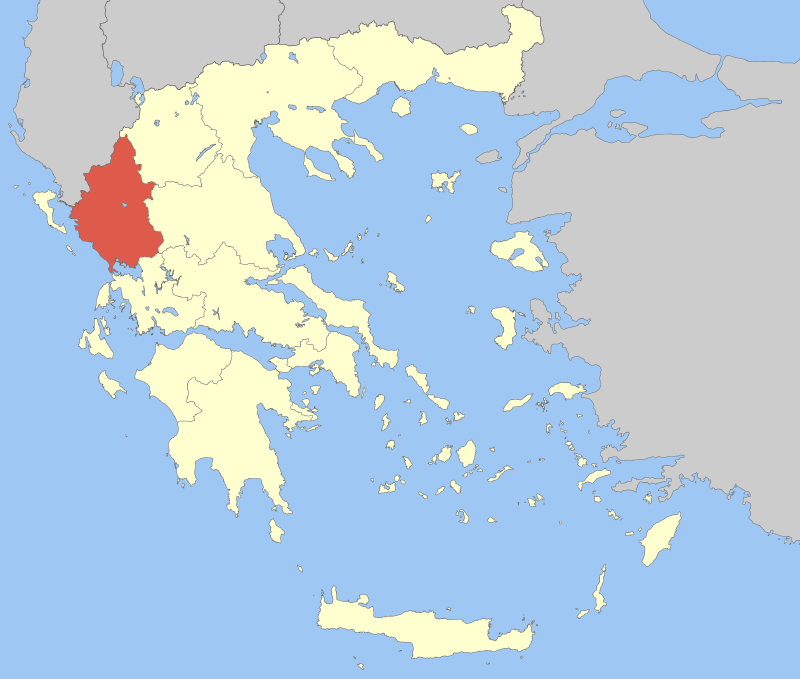 Locator Map of Epirus Periphery, Greece